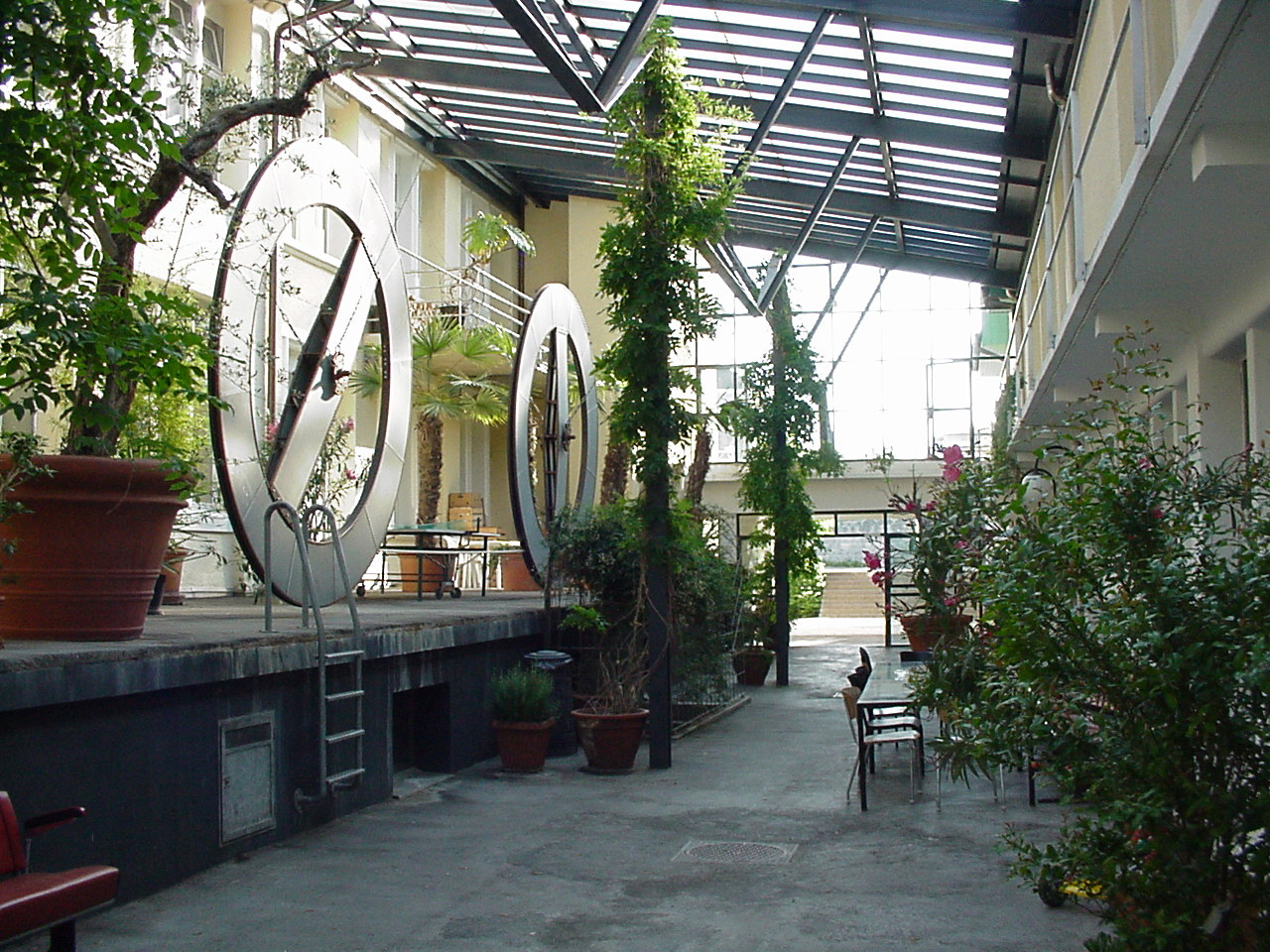 Herzstück der Wohnanlage ist ein glasüberdachter Innenhof mit subtropischem Klima.